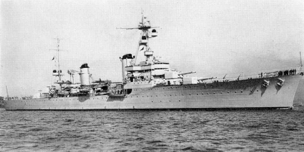 Cruiser Colbert, ONI203 booklet for identification of ships of the French Navy, published by the Division of Naval Inteligence of the Navy Department of the United States (9 November 1942).